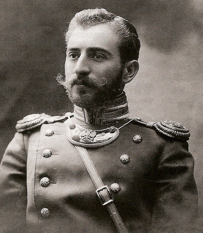 A photo of a prominent Ukrainian military, fighter for independence of Ukraine, colonel Petro Bolbochan.